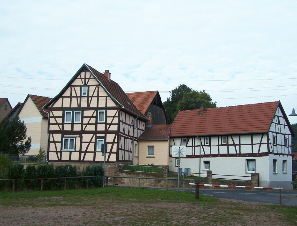 In Unkeroda village.